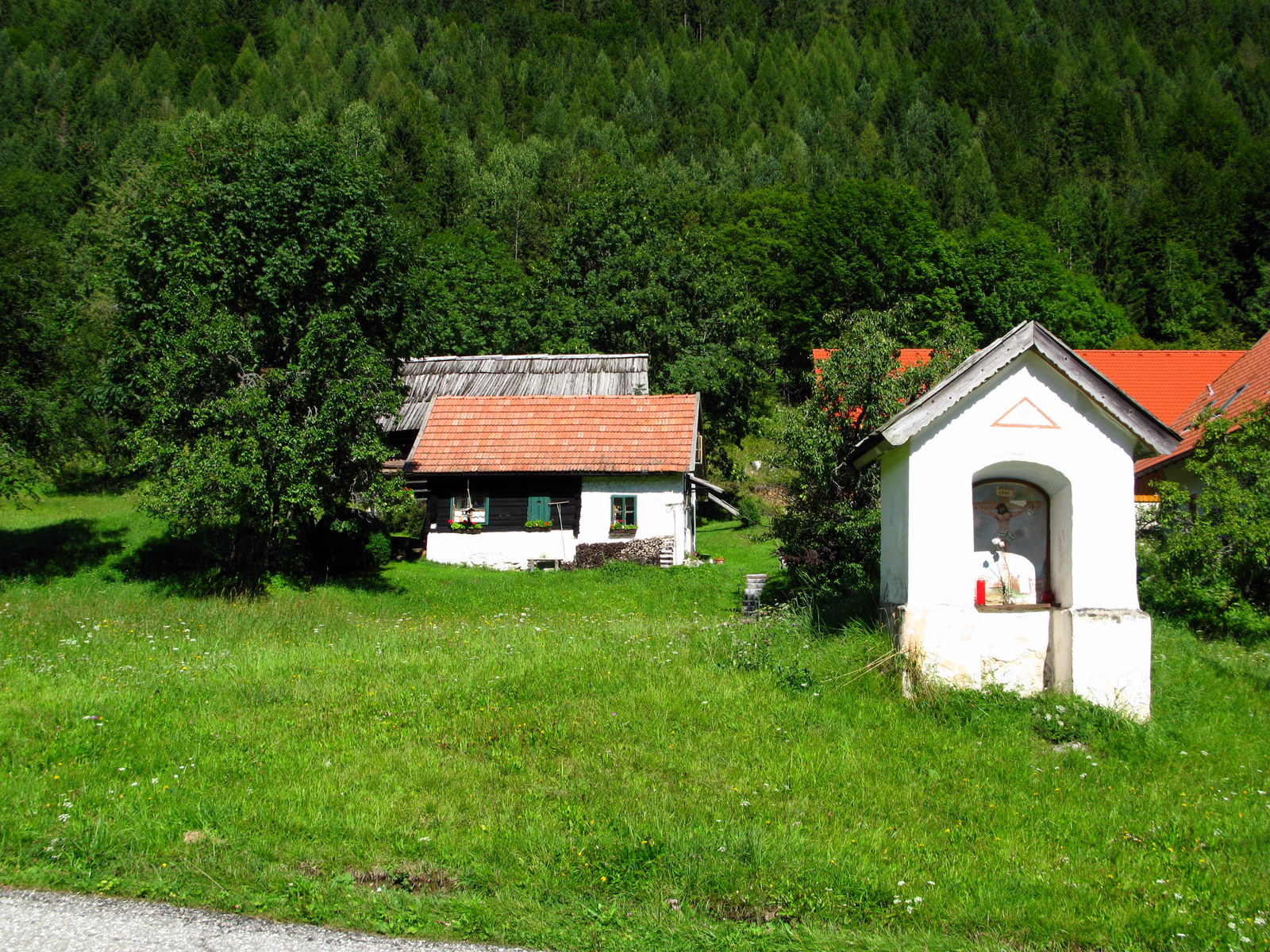 Old farmbuilding (farmer's life interest) in a valley in the Karawanken near Ferlach / Carinthia / Austria / EU.